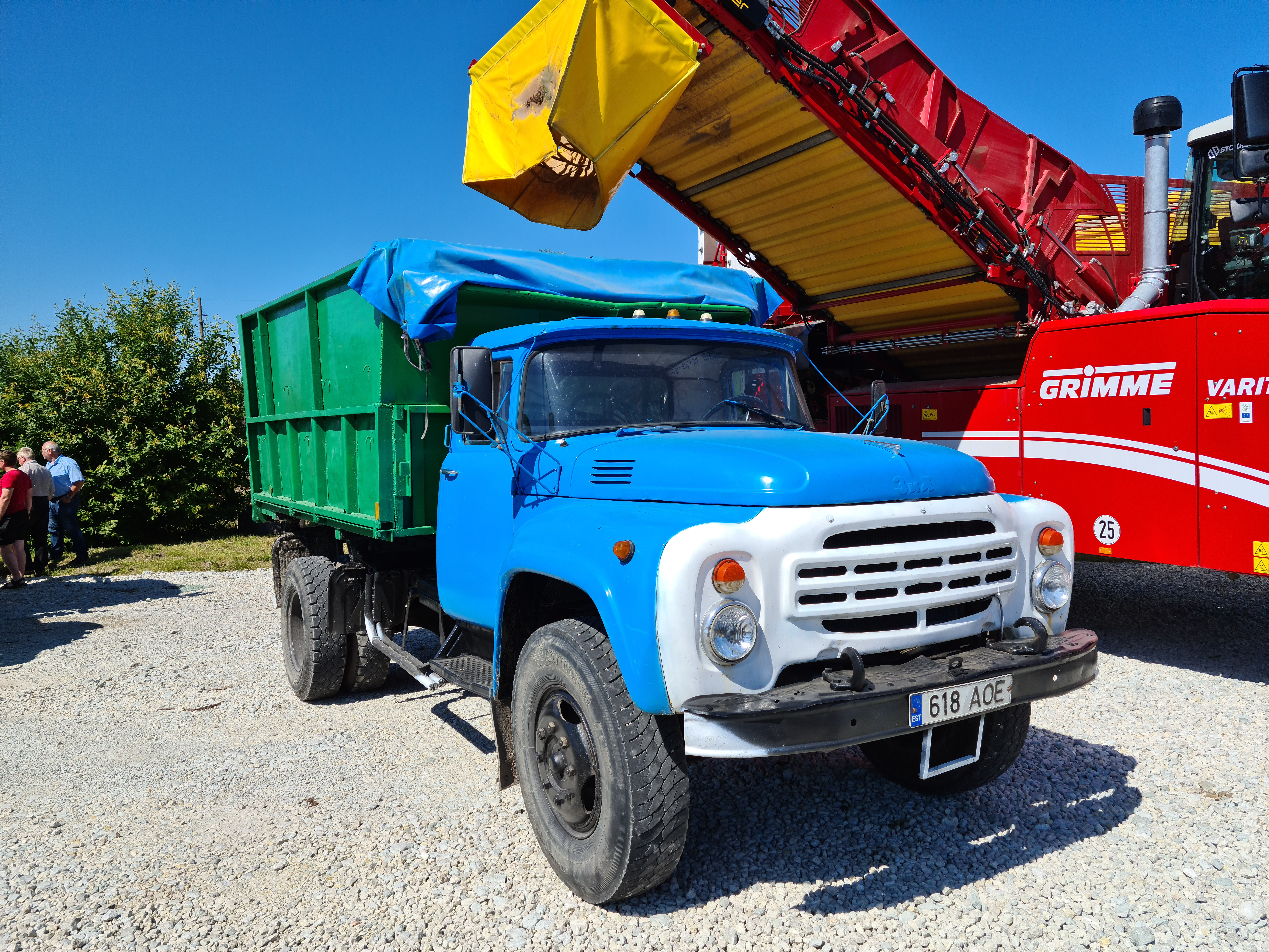 Front view over of a ZiL-130 dump truck.